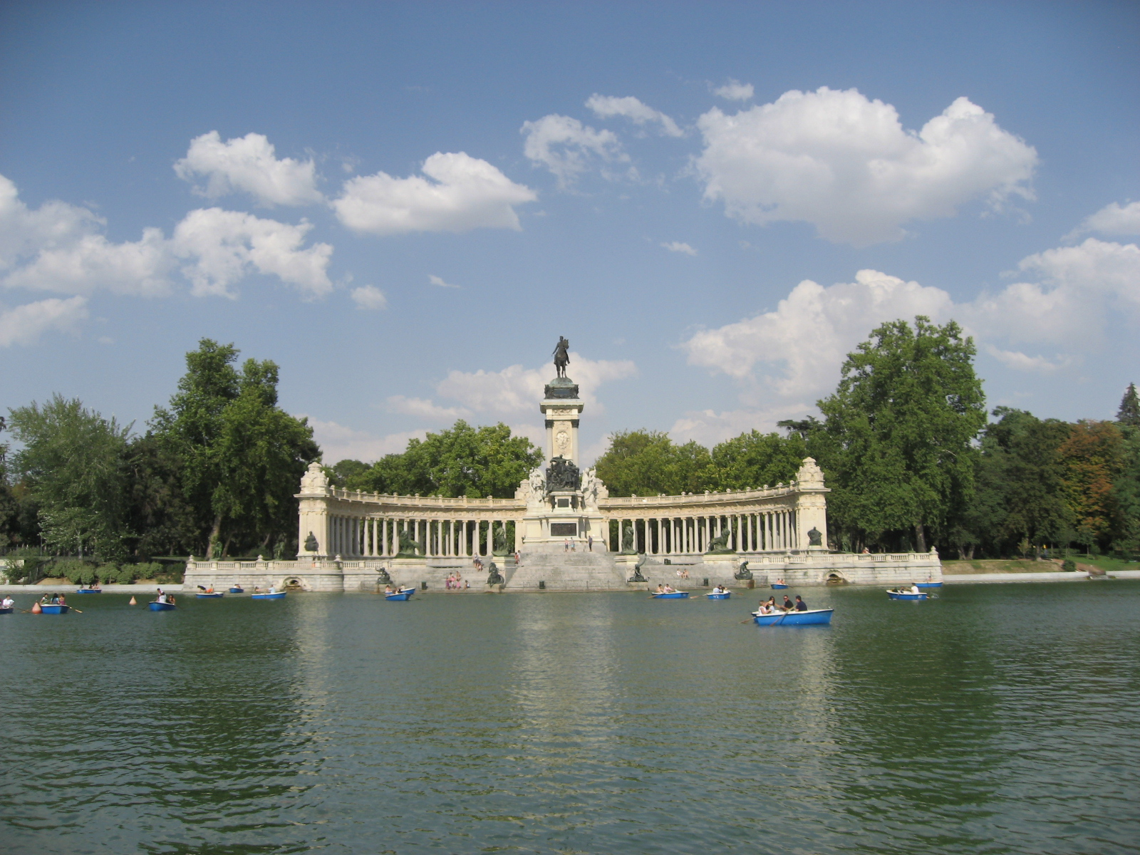 Parque del Buen Retiro